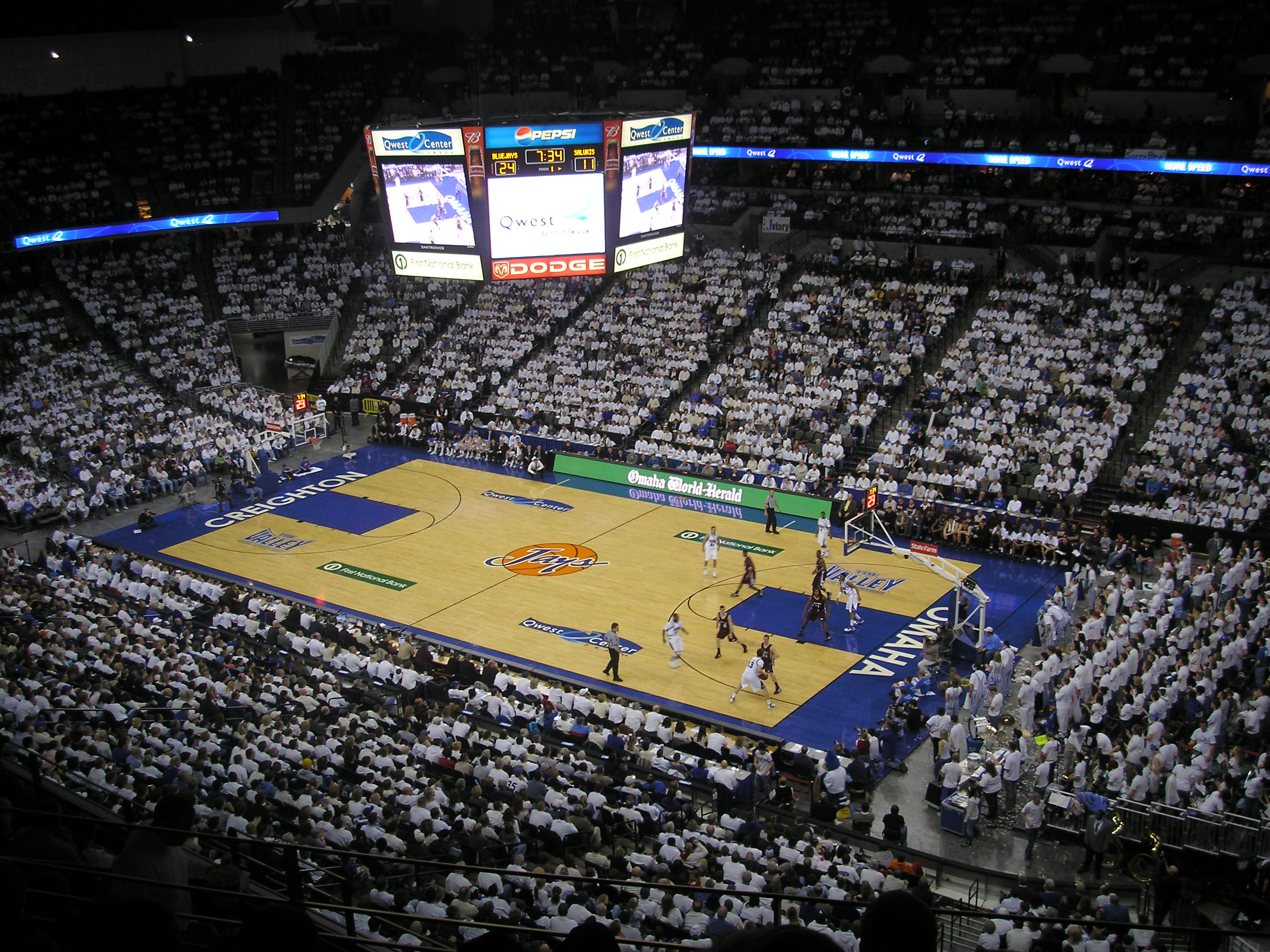 Whiteout vs Southern Illinois at Qwest Center Omaha